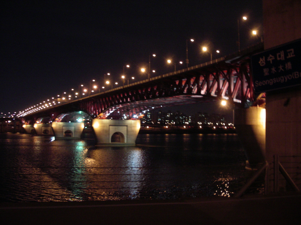 Seongsu Bridge at night